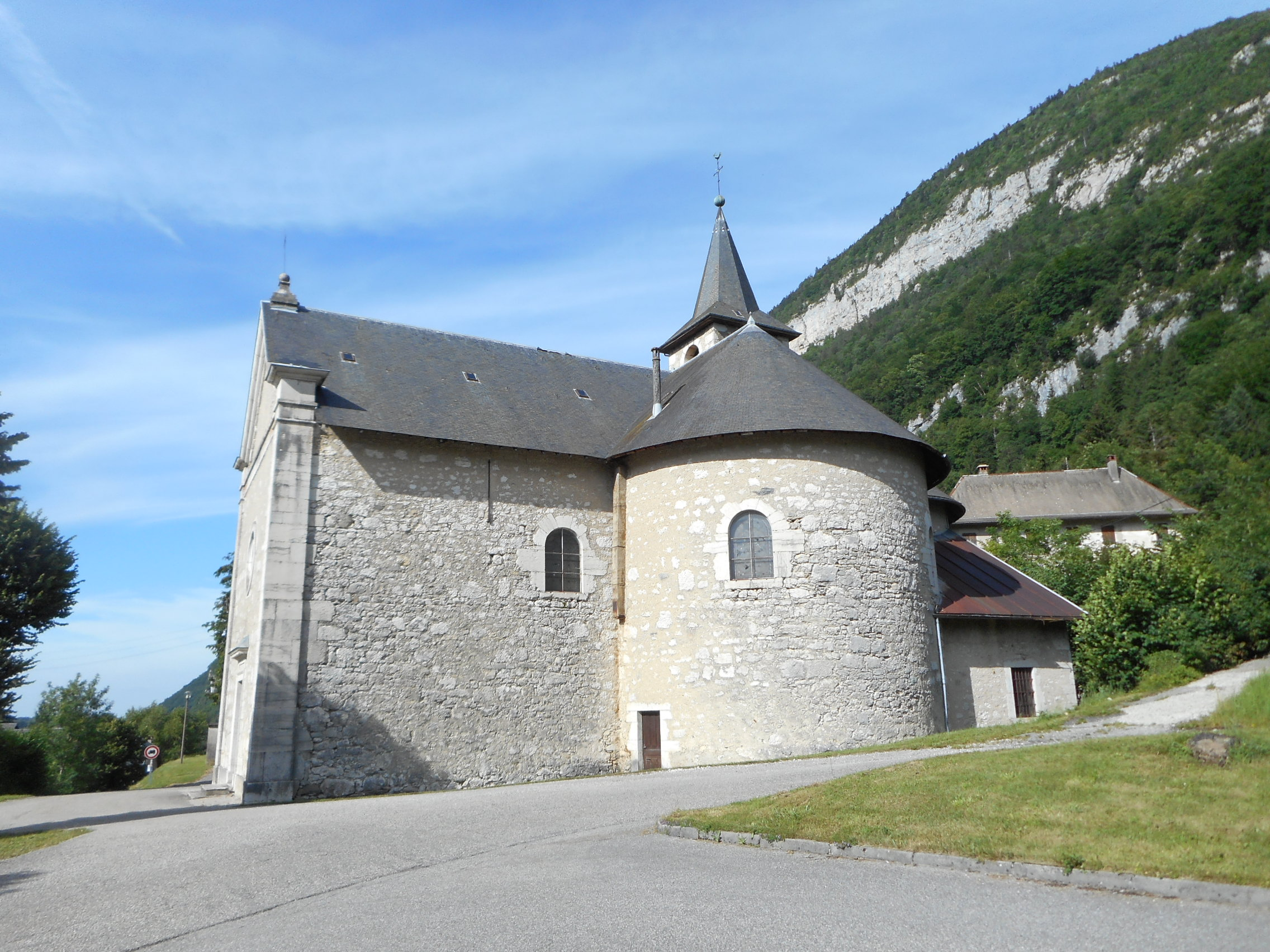 The church of Saint-Thibaud-de-Couz.